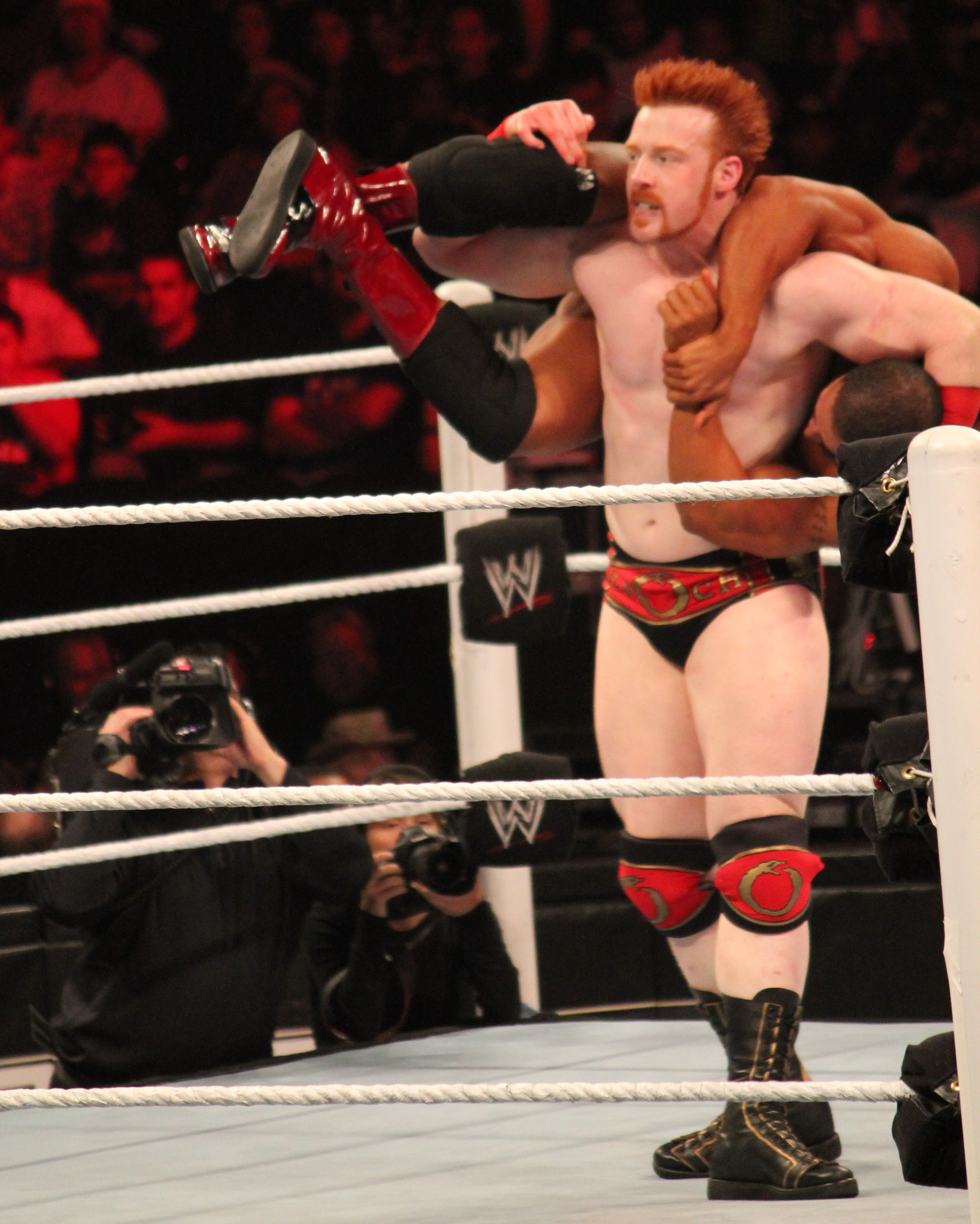 Sheamus vs David Otunga